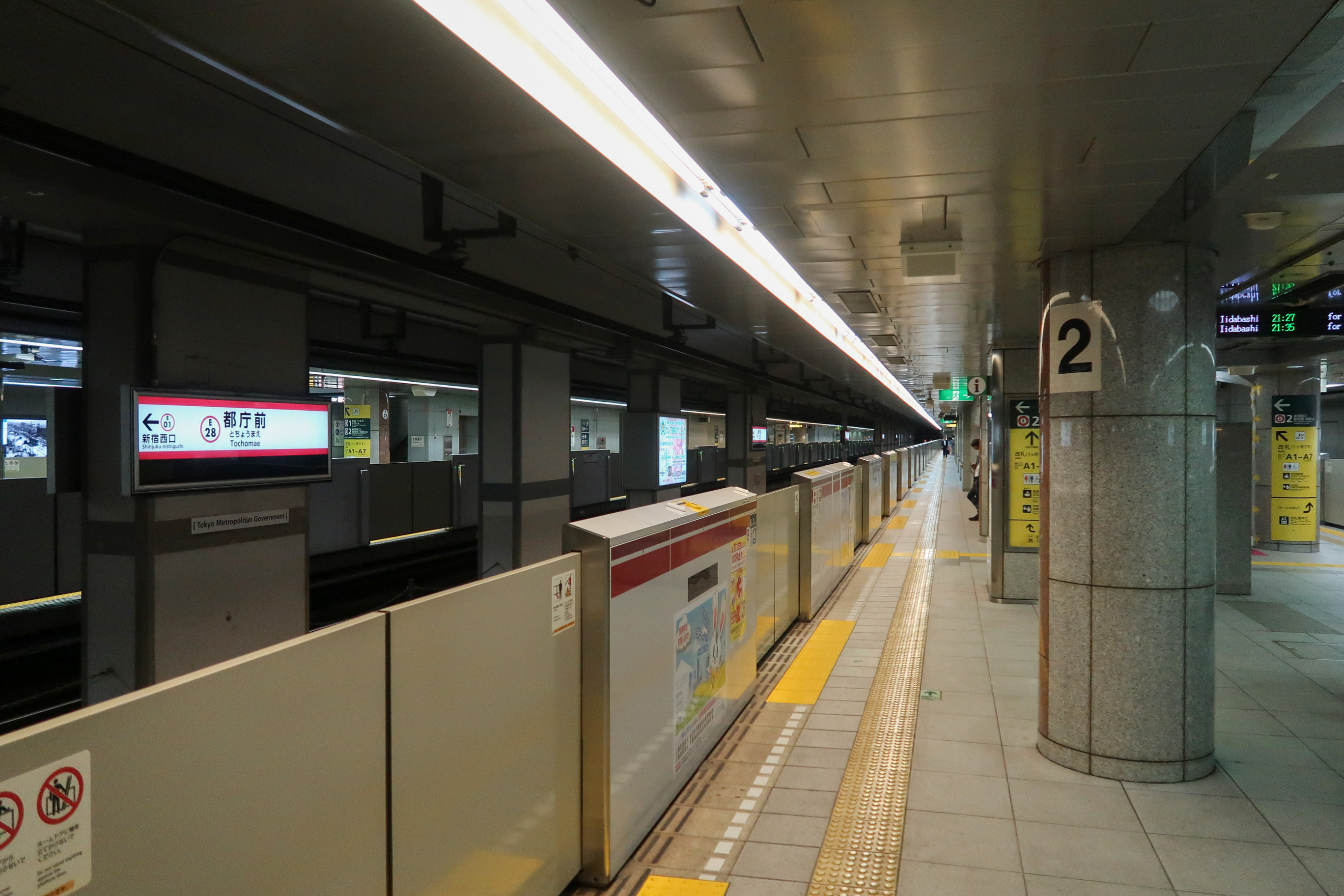 Tochōmae Station